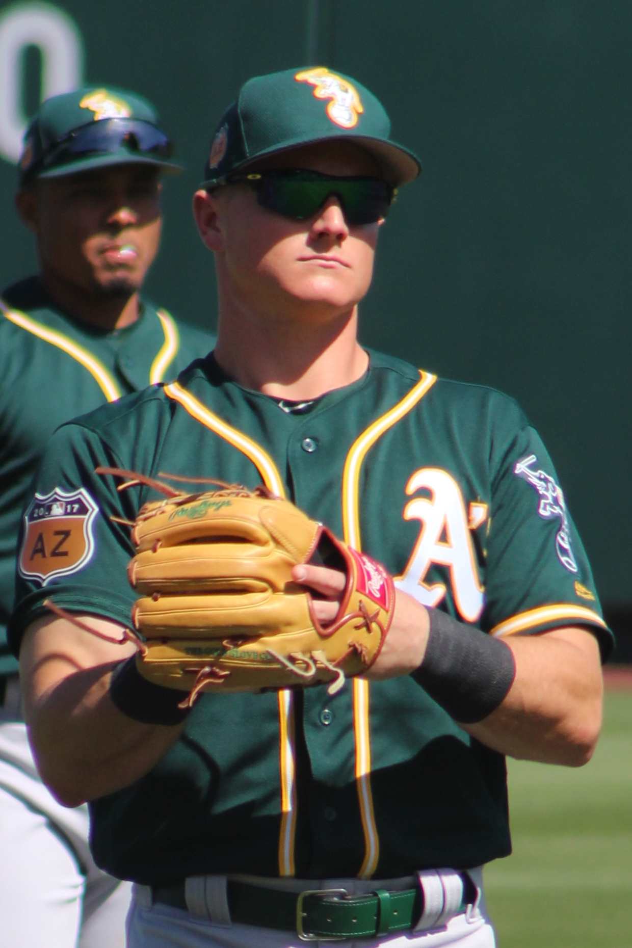 Matt Chapman - Oakland A's at Arizona Diamondbacks: Spring Training - 3/7/17